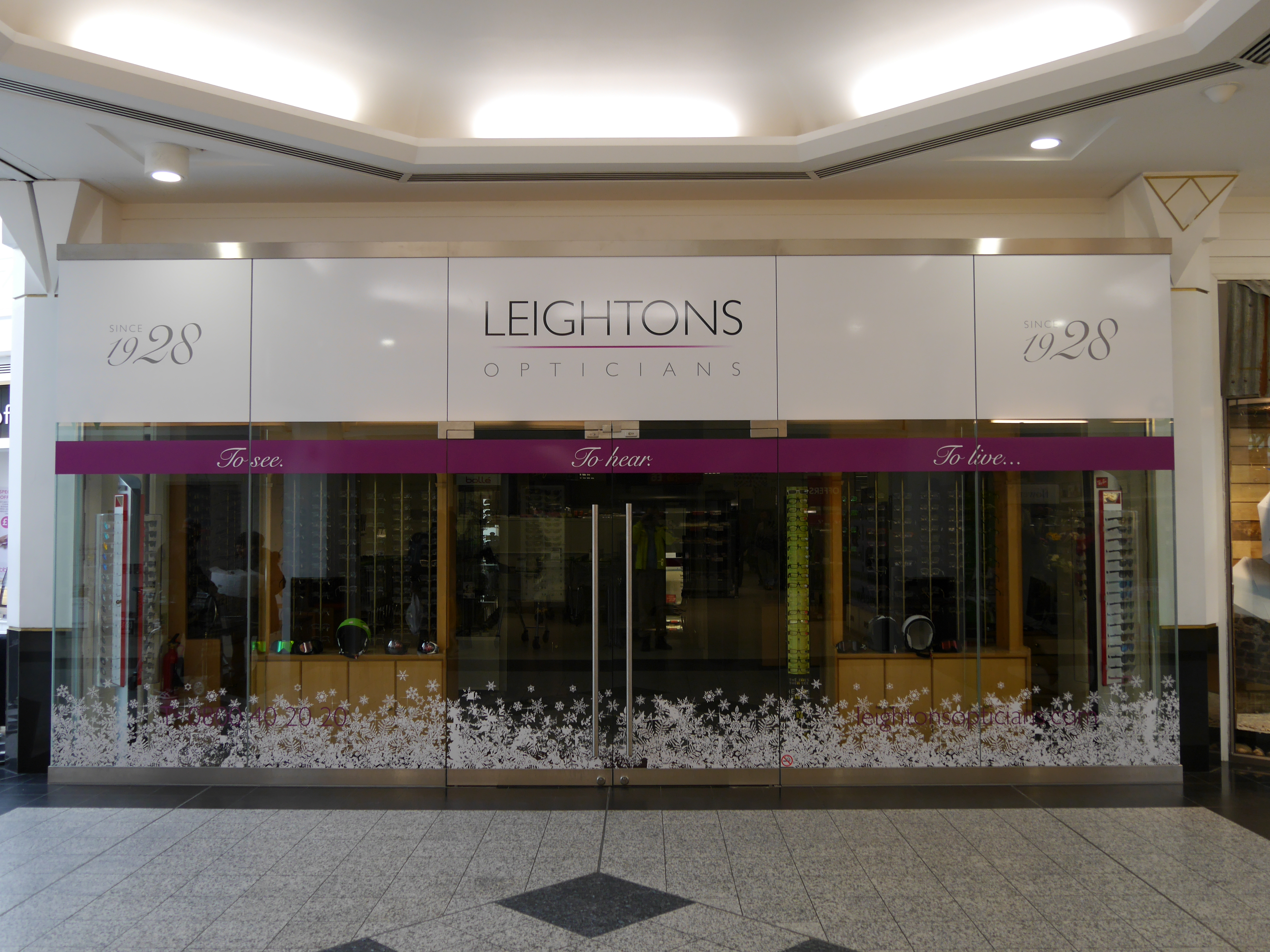 Putney Exchange